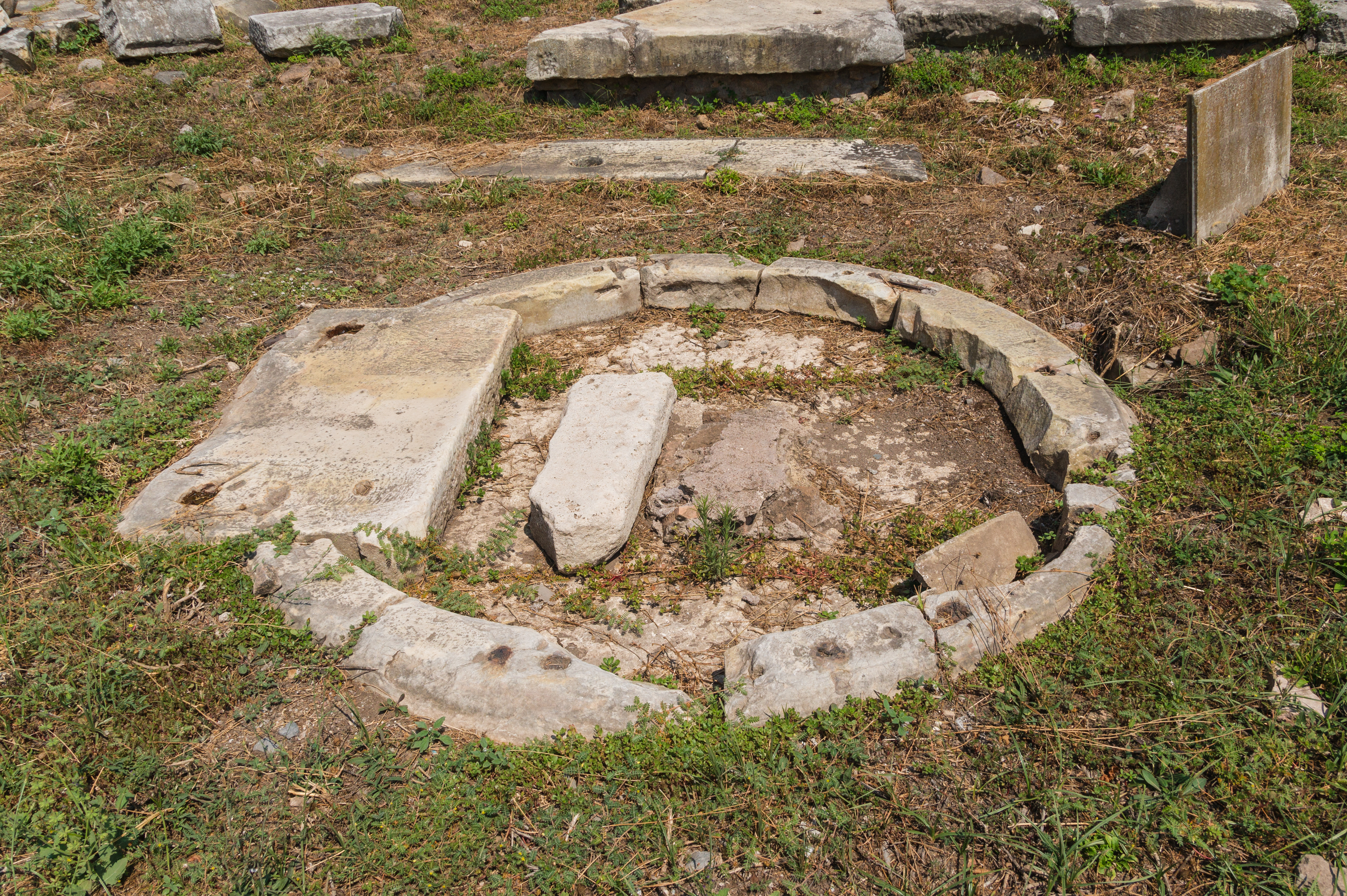 Shrine of Venus Cloacina, forum romanum, Rome, Italy.